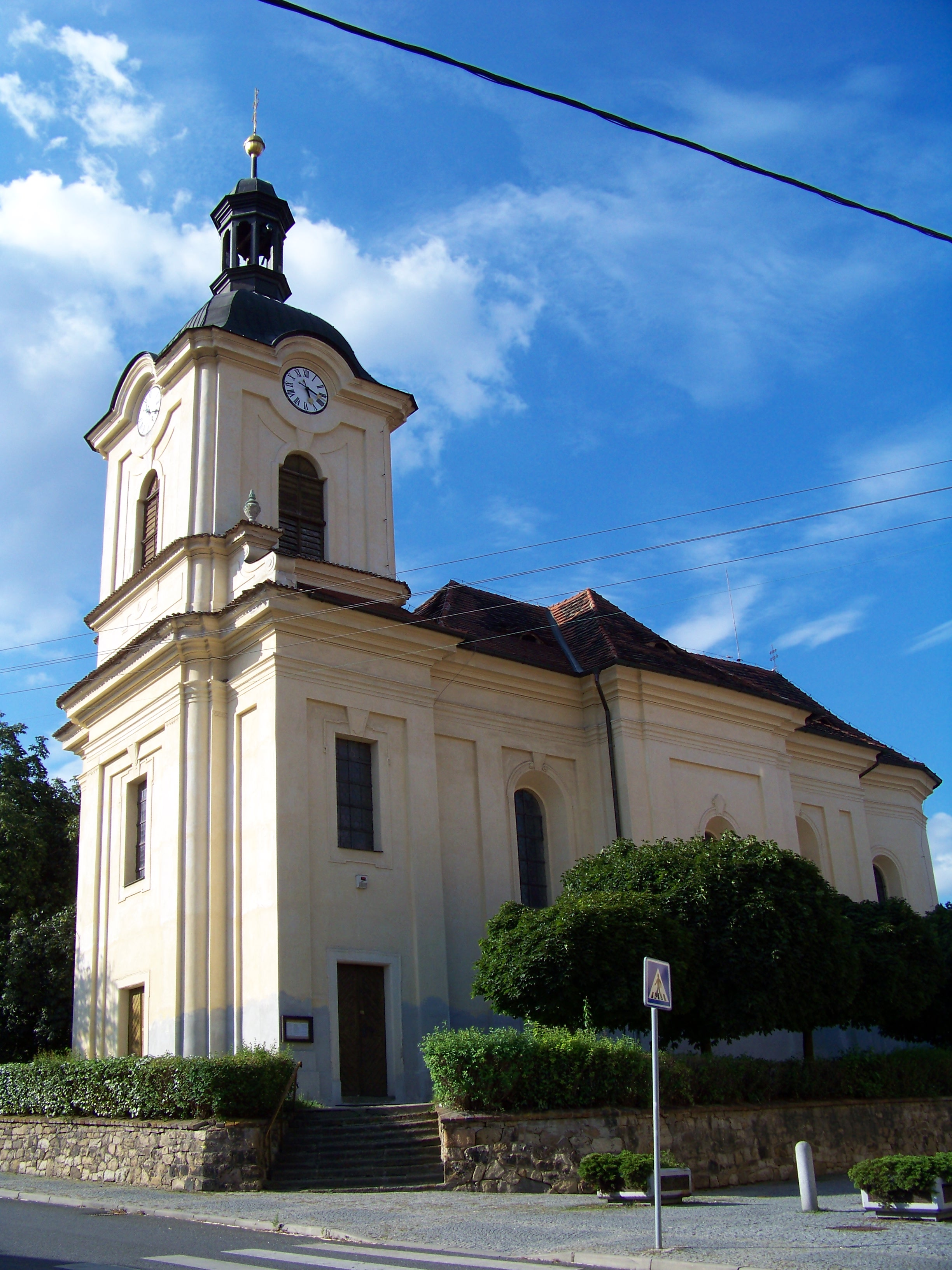 Zdice, Beroun District, Central Bohemian Region, the Czech Republic. A church, a view from Vorlova street.